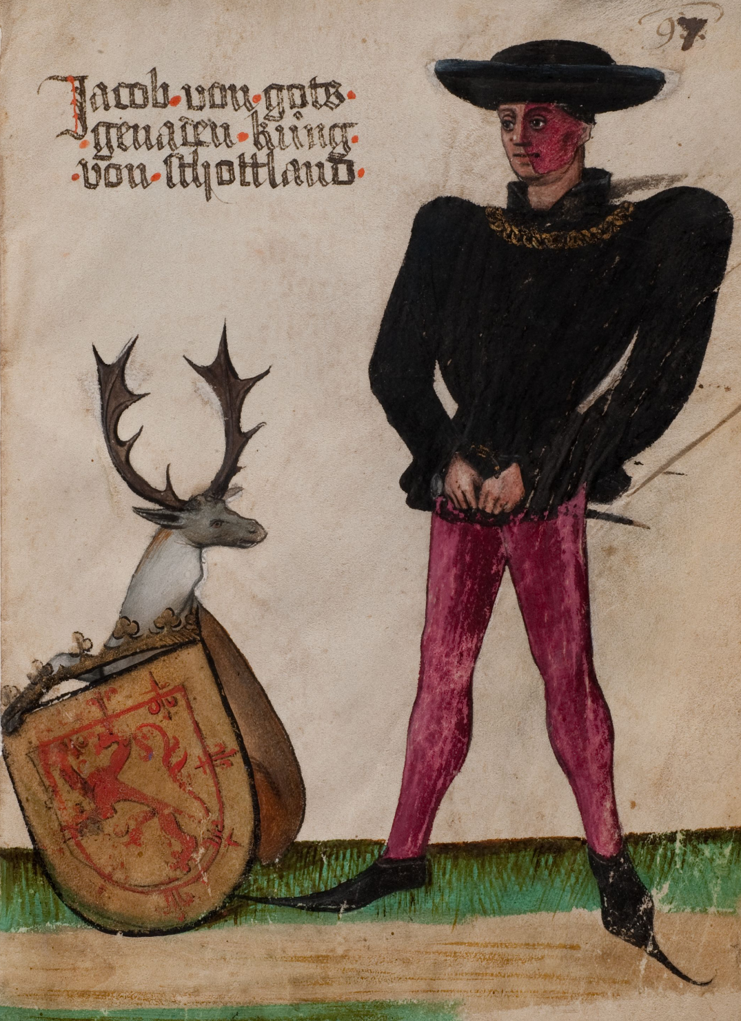 James II of Scotland depicted in the diary of Jörg von Ehingen, 15th century, Held in the Württembergische Landesbibliothek, Stuttgart.